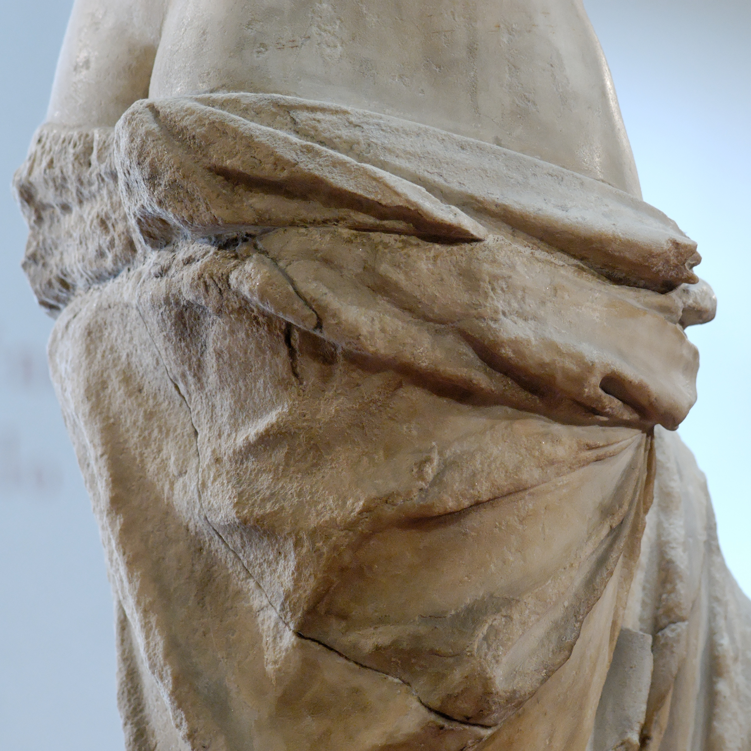 So-called “Venus de Milo” (Aphrodite from Melos), detail of the junction of the two blocks: fragment from the right hip. Parian marble, ca. 130-100 BC? Found in Melos in 1820.